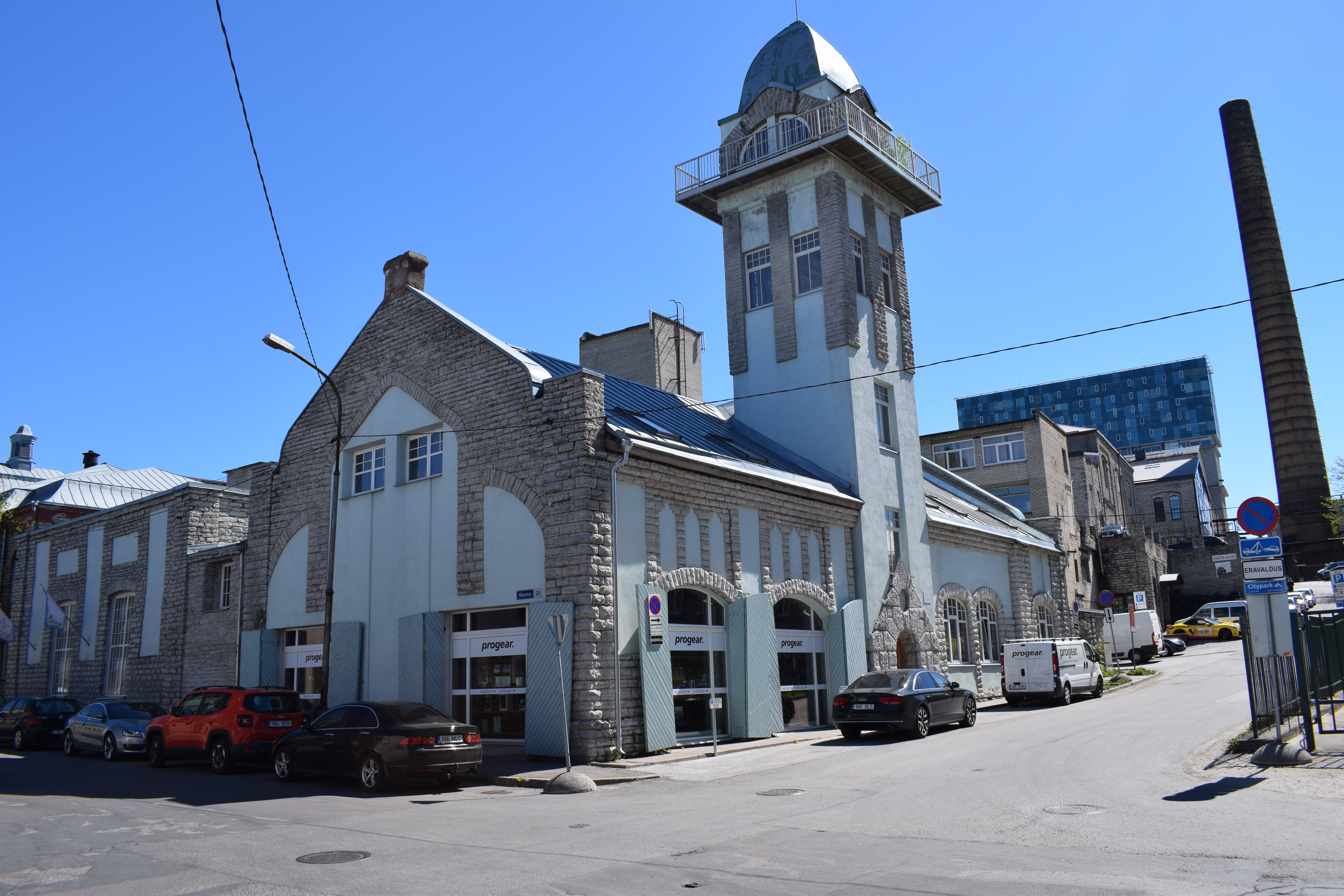 Masina 20